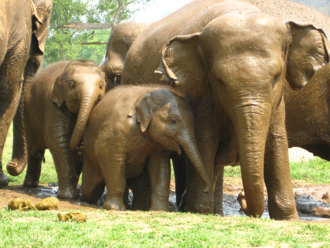 Elephants at Elephant Nature Park